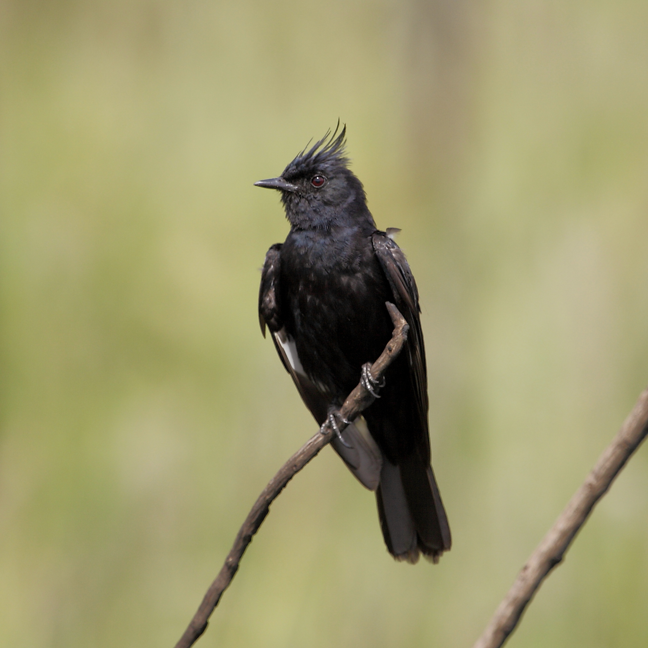 Crested black-tyrant at Serra da Canastra National Park - MG - Brazil